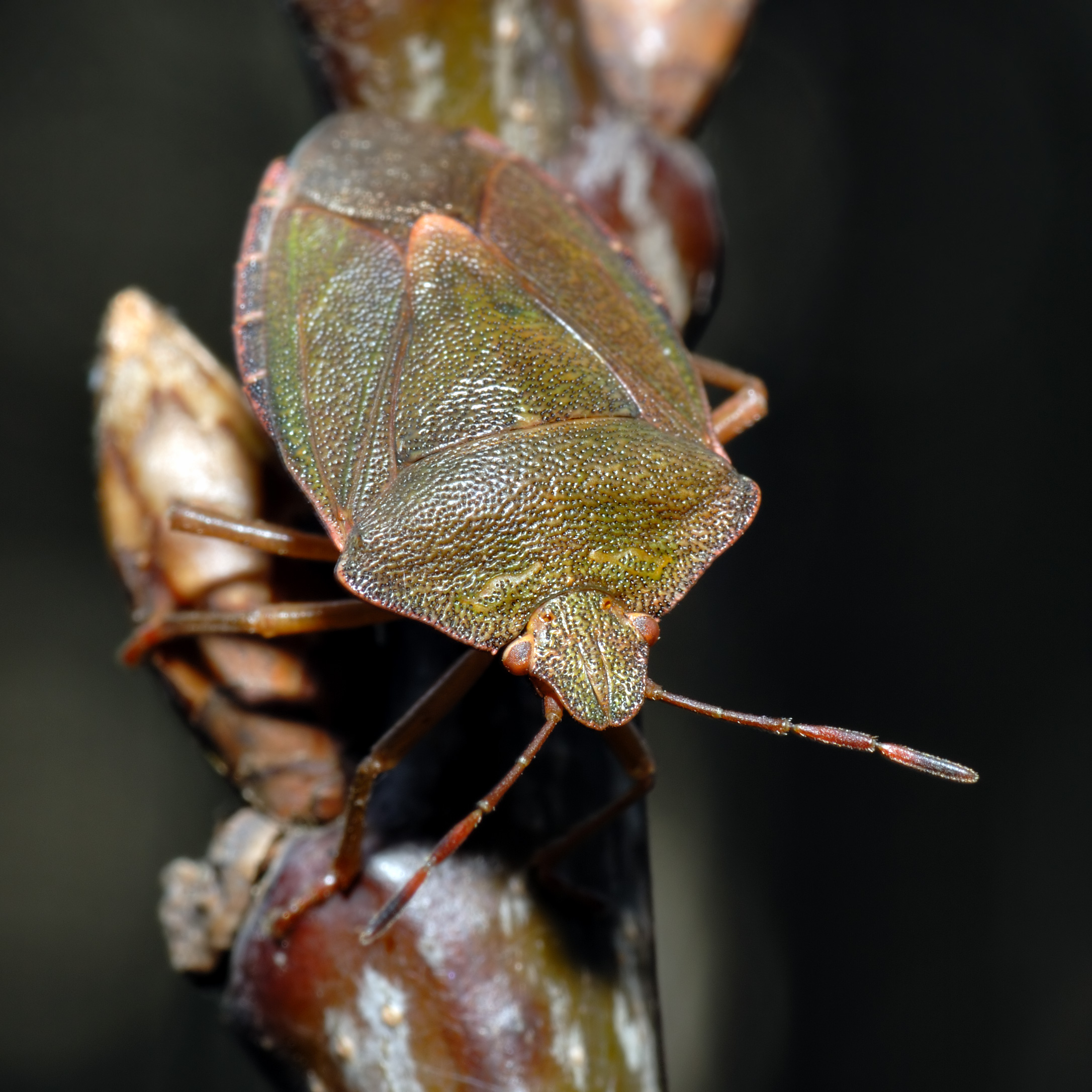 This image shows a Green shieldbug (Palomena prasina).